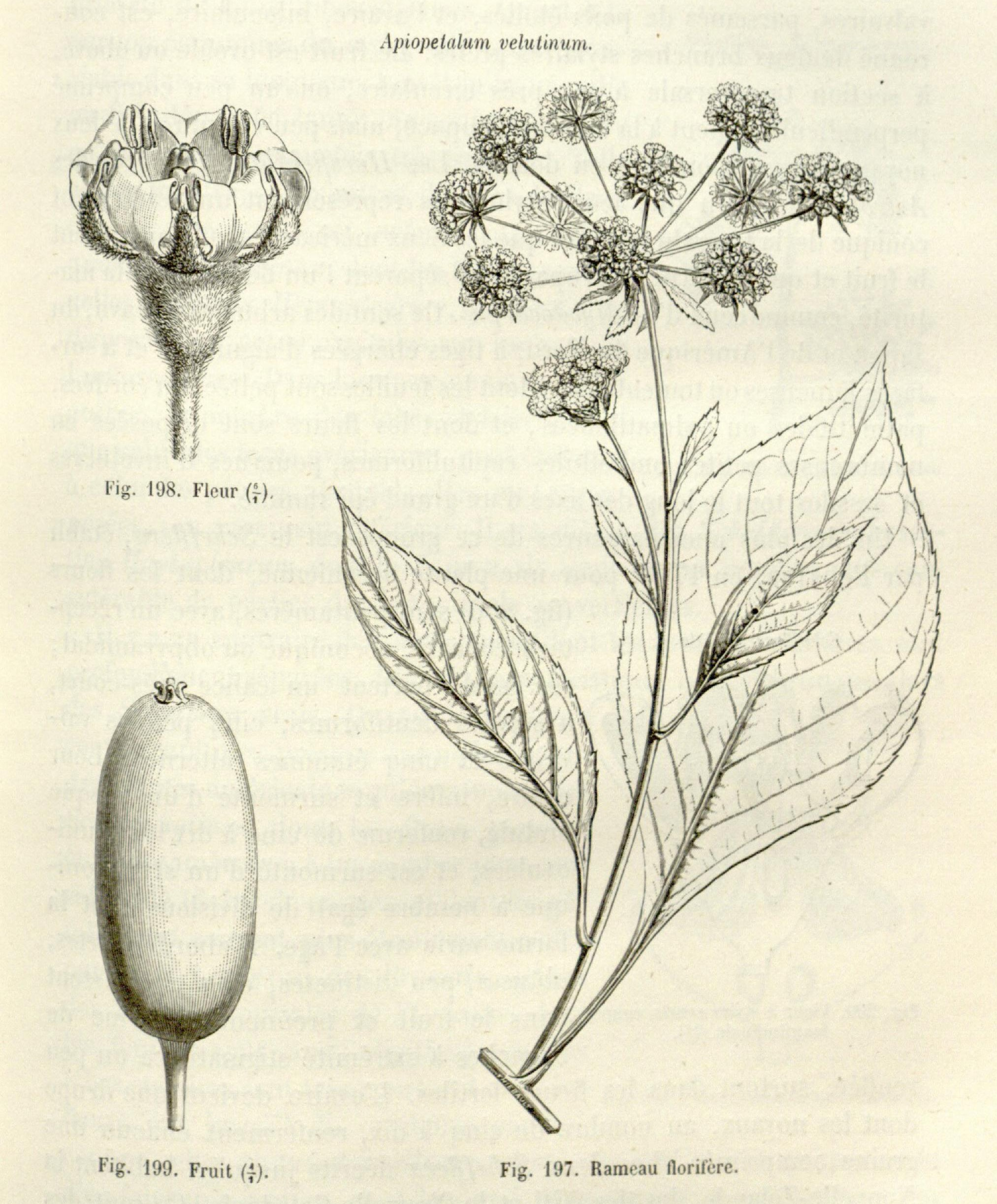 Apiopetalum velutinum line drawing